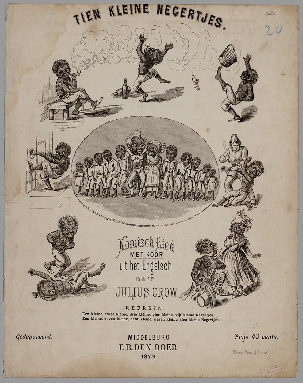 LblKBWouters25021_001, 26-06-2002, 10:11, 8C, 4543x3545 (220+2258), 100%, Wouters A, 1/120 s, R20.5, G3.5, B15.8